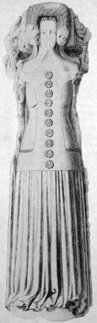 Effigy of Lady Joan Mohun (d.1404), Canterbury Cathedral, Crypt. She was Joan of Burghersh, daughter of Sir Bartholomew of Burghersh, half-brother of Henry Burghersh (1292-1340), Bishop of Lincoln and Chancellor of England. Henry Burghersh had purchased the wardship and marriage of her future husband Sir John V de Mohun (c.1320-1375), feudal baron of Dunster